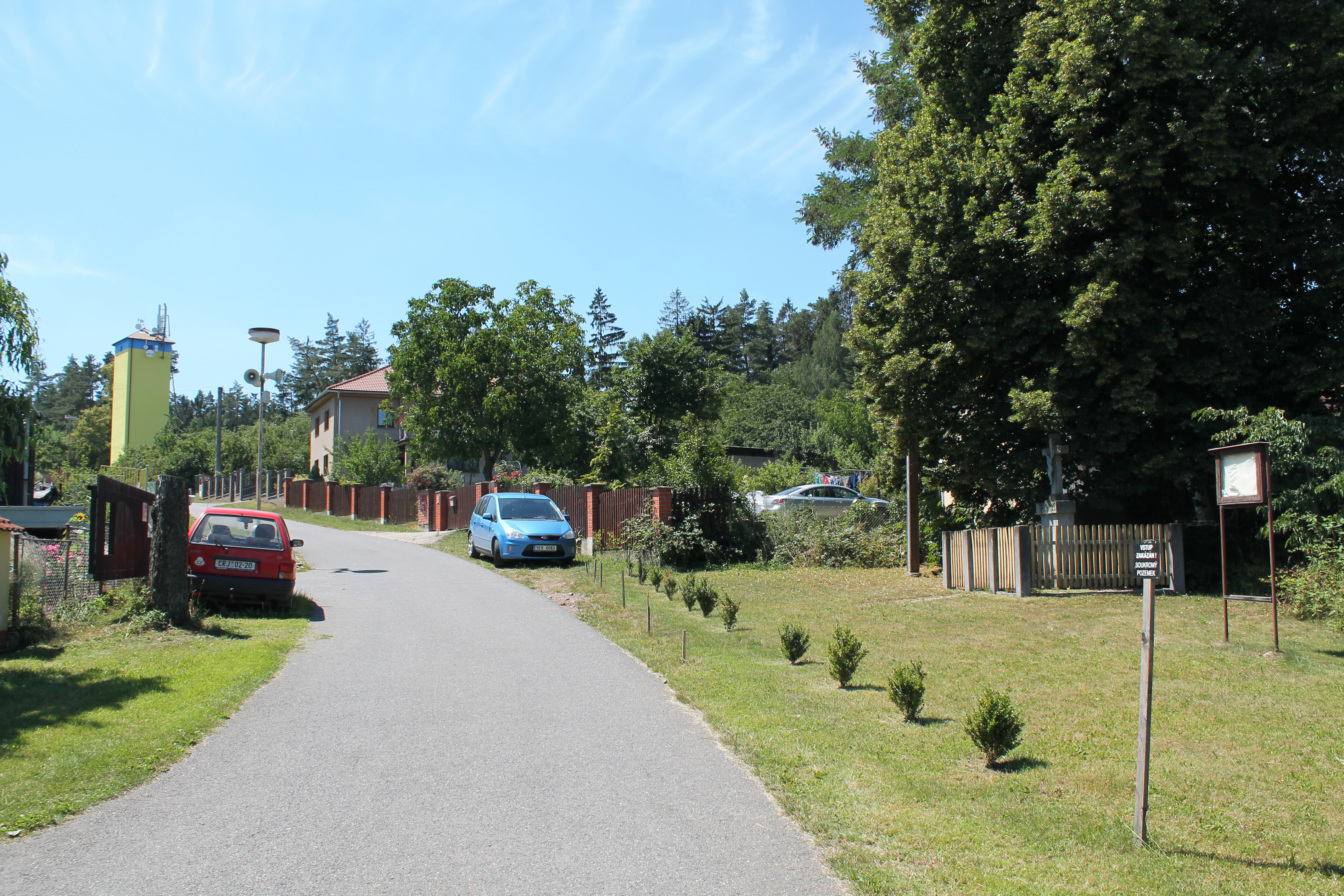 Rabštejn, Rabštejnská Lhota, Chrudim District, Czech Republic